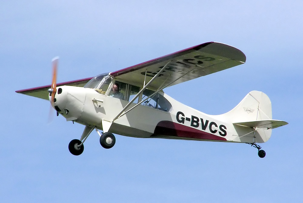 Aeronca 7AC Champion at Kemble Airfield, Gloucestershire, England. Built in the year 1946. Photographed by Adrian Pingstone in July 2005 and released to the public domain.